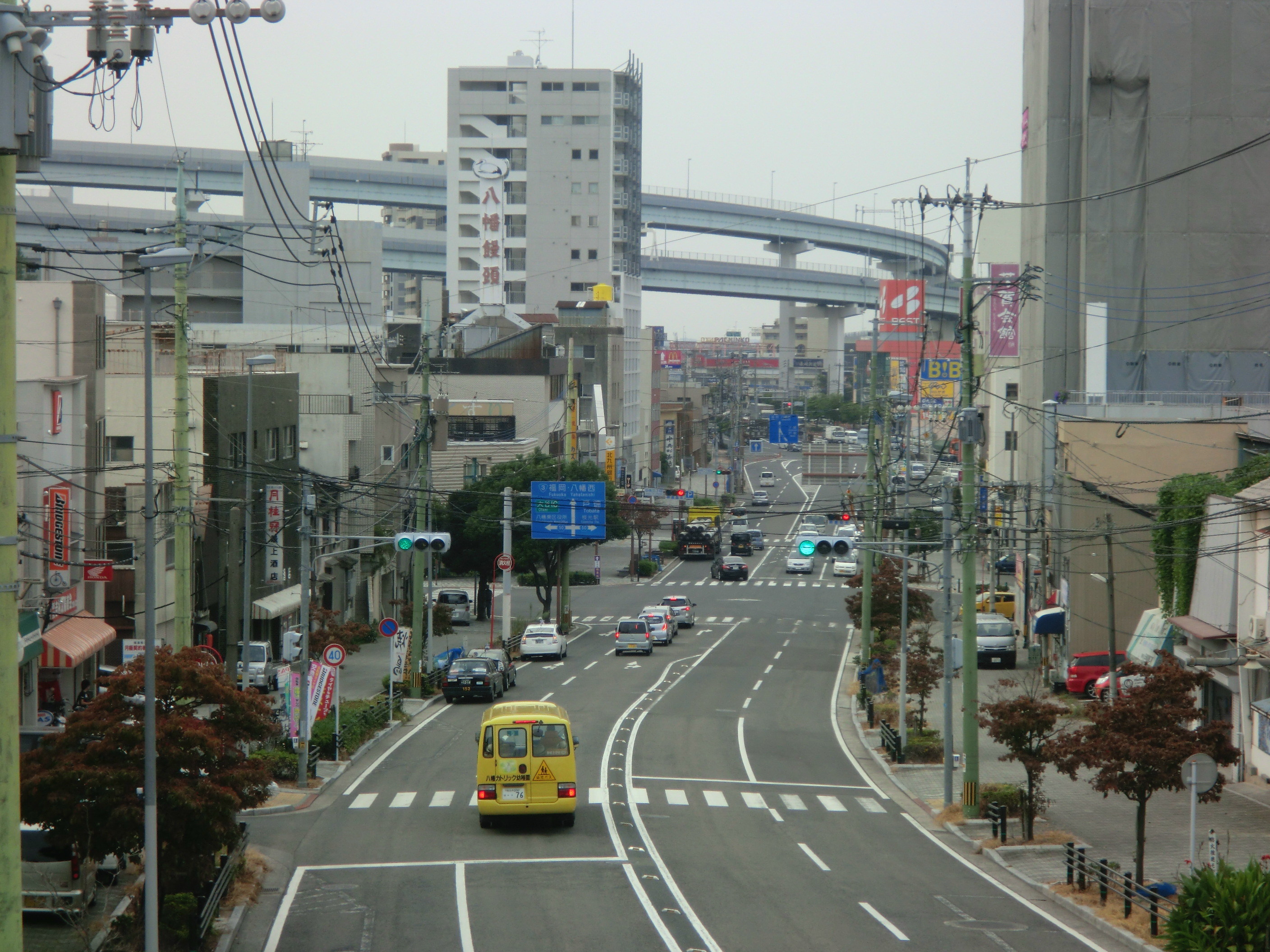 Townscape of Chuo area of Yahata-higashi ward,Kitakyushu,Fukuoka,Japan.